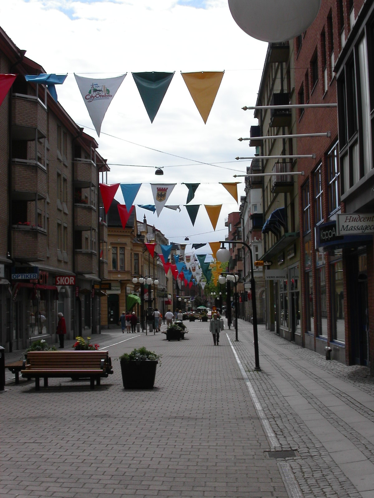 Örebro, Sweden, downtown